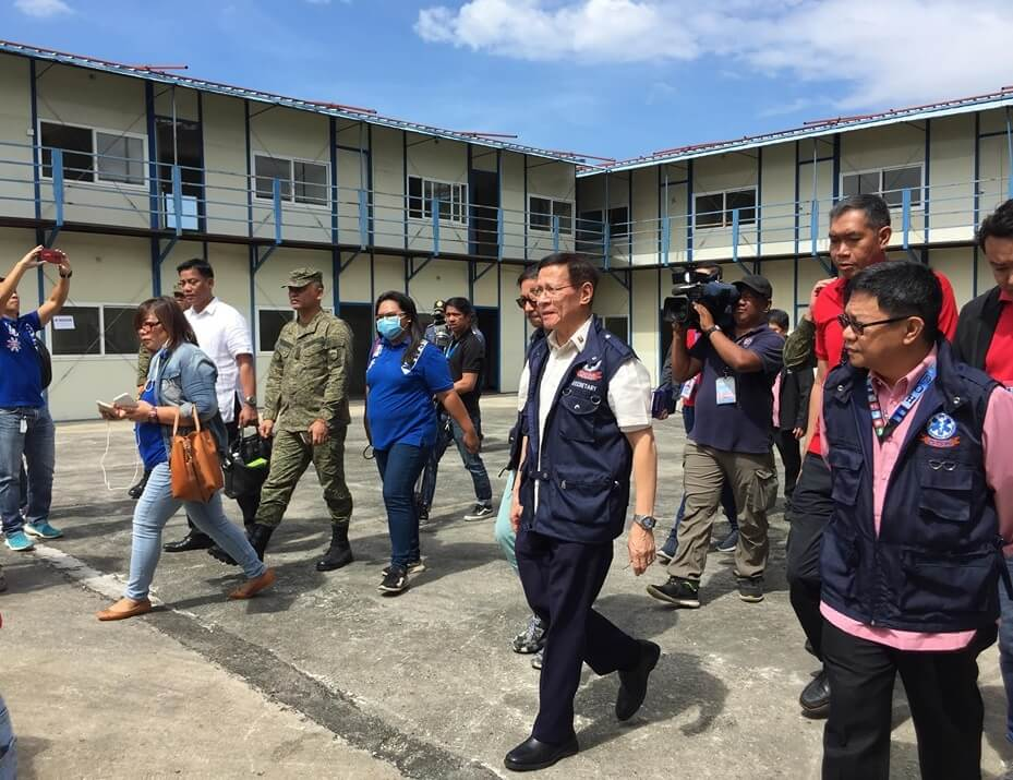 Health Secretary Francisco Duque III personally inspected the facilities of the Mega Drug Abuse Treatment and Rehabilitation Center at Fort Magsaysay which is one of the proposed quarantine area for Filipinos going home from China due to the 2019 novel coronavirus outbreak. (Camille C. Nagaño/PIA 3)